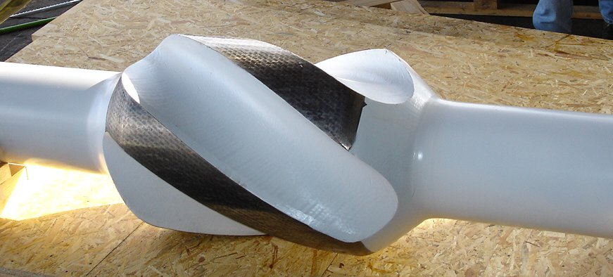 Integral Blade Stabilizer (Drillstar) with tungsten carbide bricks (TCB) hardfacing.